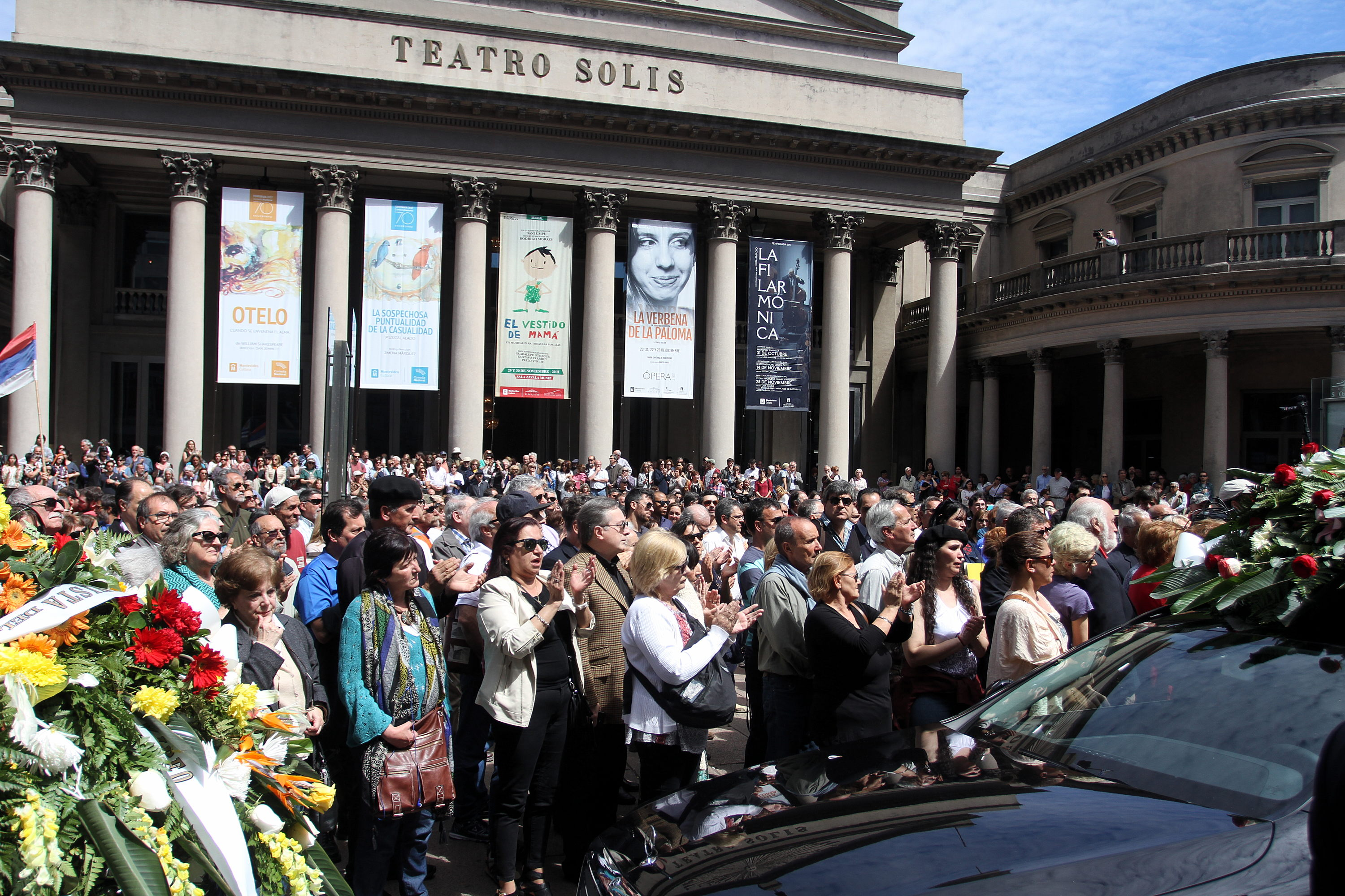 Velatorio del artista Daniel Viglietti en el Teatro Solís. Montevideo, Uruguay.